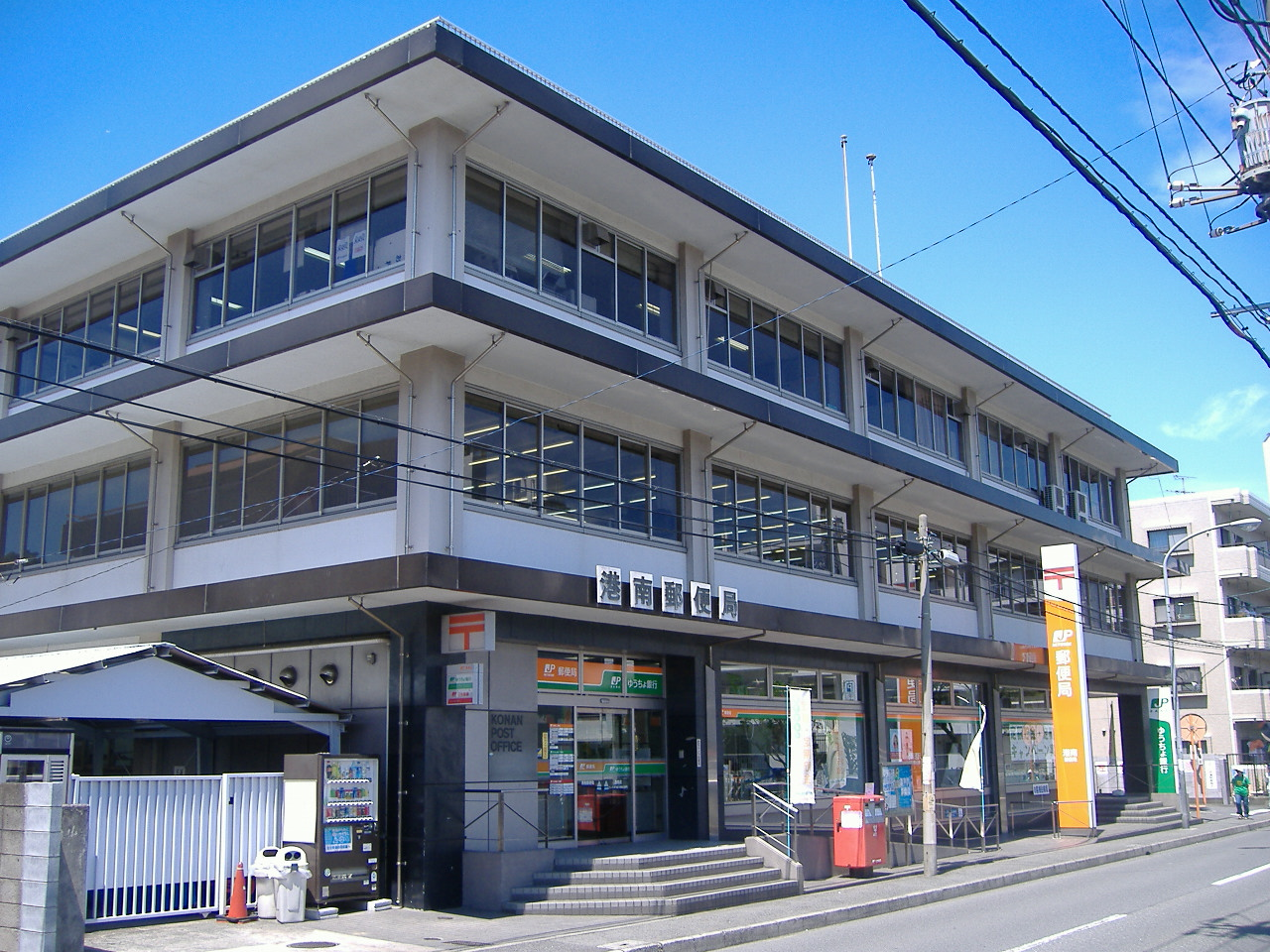 Kounan_Post-Office (Yokohama, Japan)